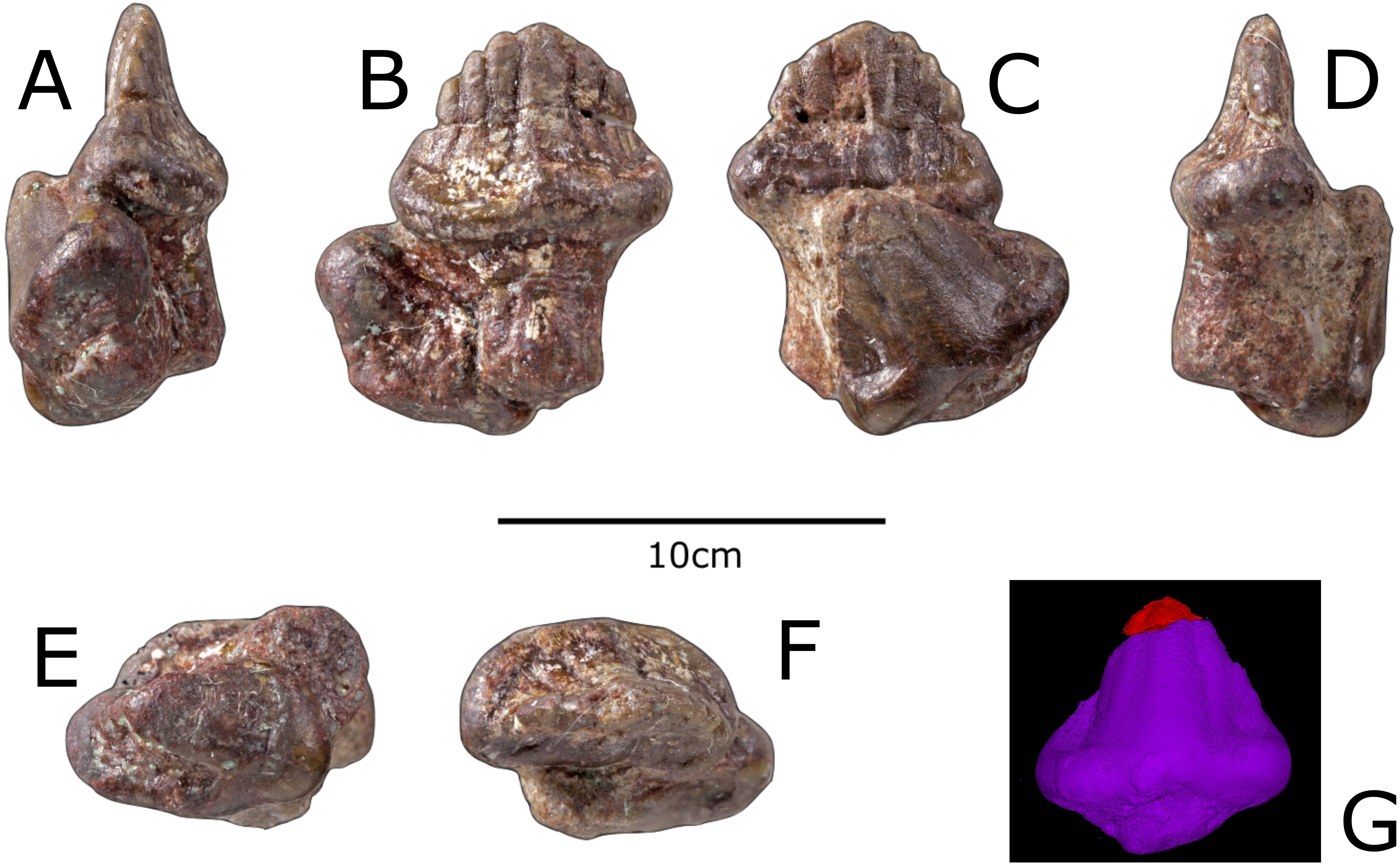 Figure 5: Previously referred teeth of Paranthodon africanus NHMUK R4992. (A) Posterior; (B) lingual; (C) buccal; (D) anterior; (E) ventral; (F) dorsal; (G) screenshot of digital model derived from a CT-scan of one of the referred teeth, with uncertain material above crack in red. Images copyright The Natural History Museum.